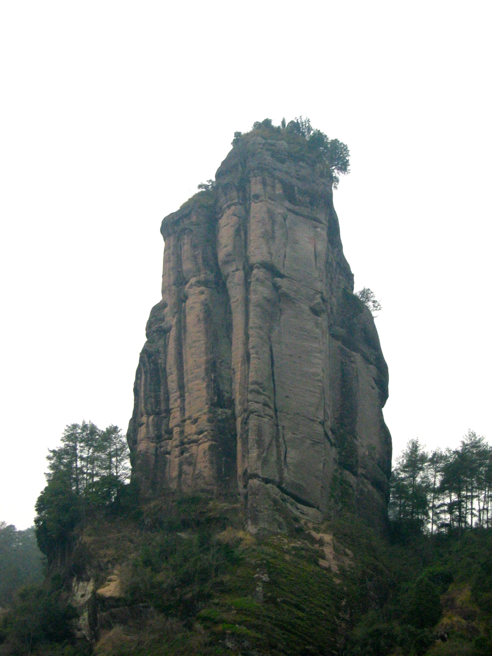 Yunü Peak — in the Wuyi Mountain Region.